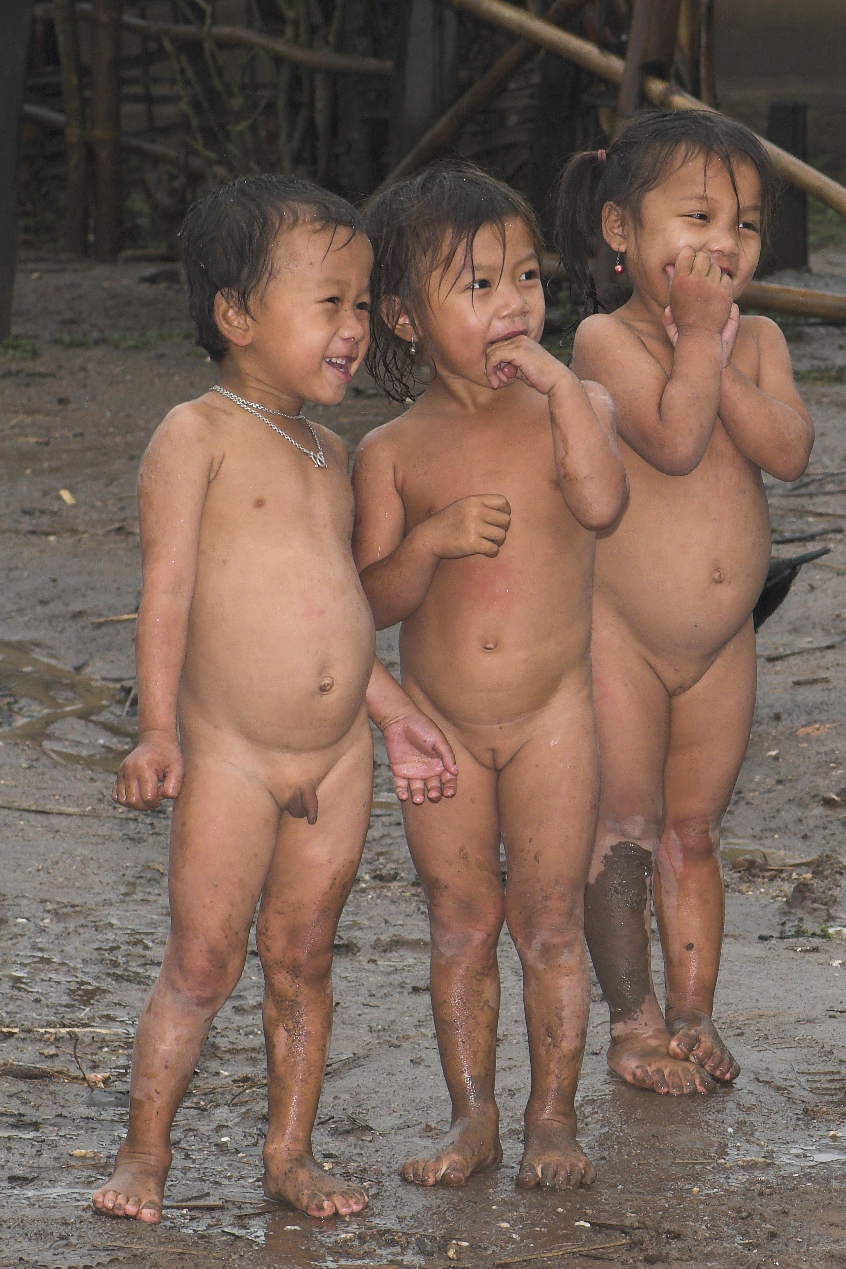 Playing Hmong children Khok Ek Laos